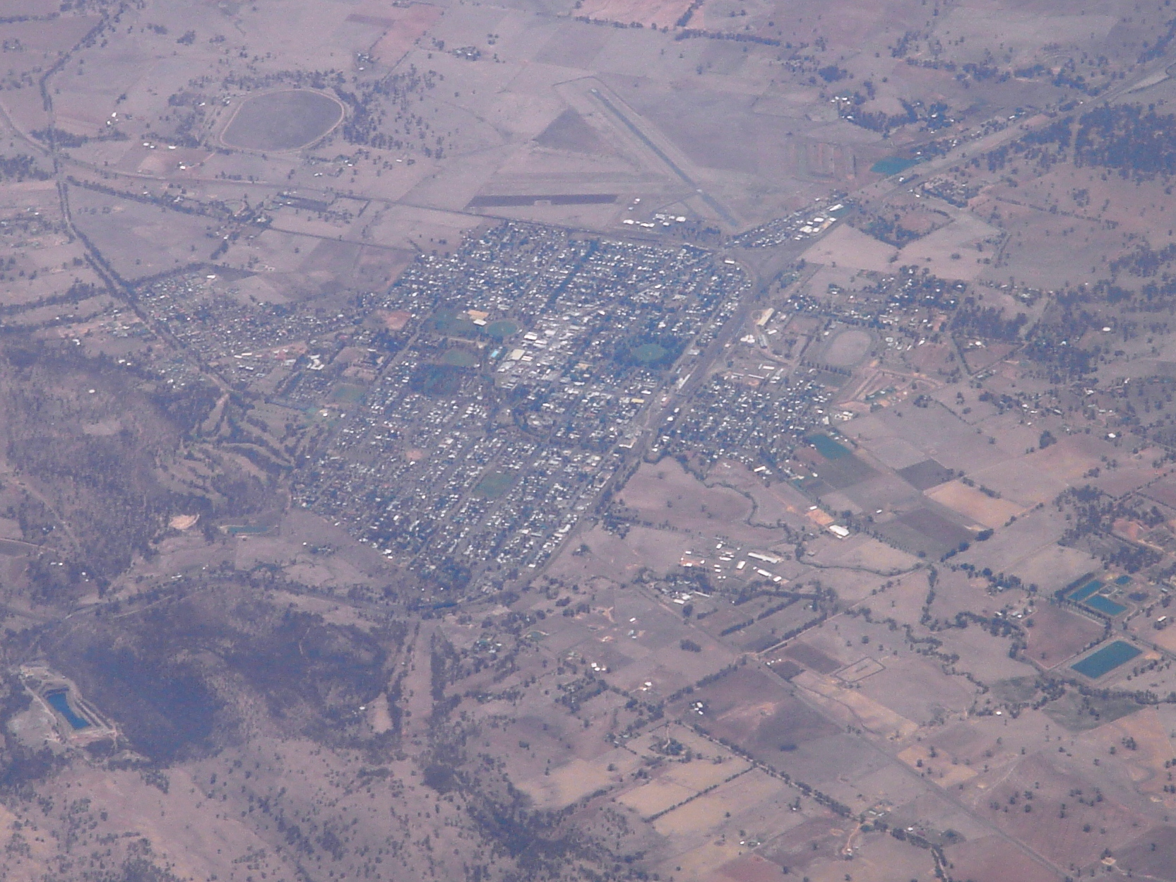 Cootamundra, New South Wales, Australia. Aerial view taken from comercial airliner.